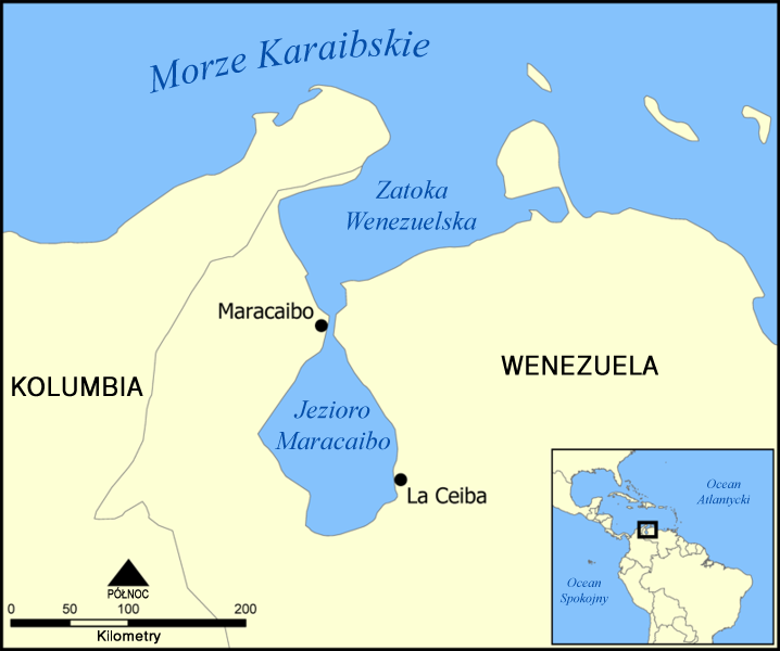 This map shows the location of Lake Maracaibo in Venezuela. Created by NormanEinstein, September 15, 2005. Translated into Polish by user:Vearthy, May 22, 2009.